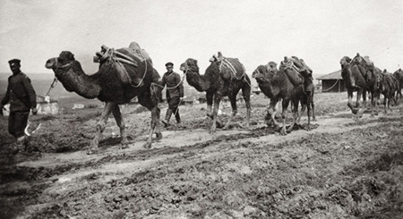 Bulgarian troops of the 17th regiment transporting supplies on camel caravans to support the operation at Catalca, First Balkan War, 1912.